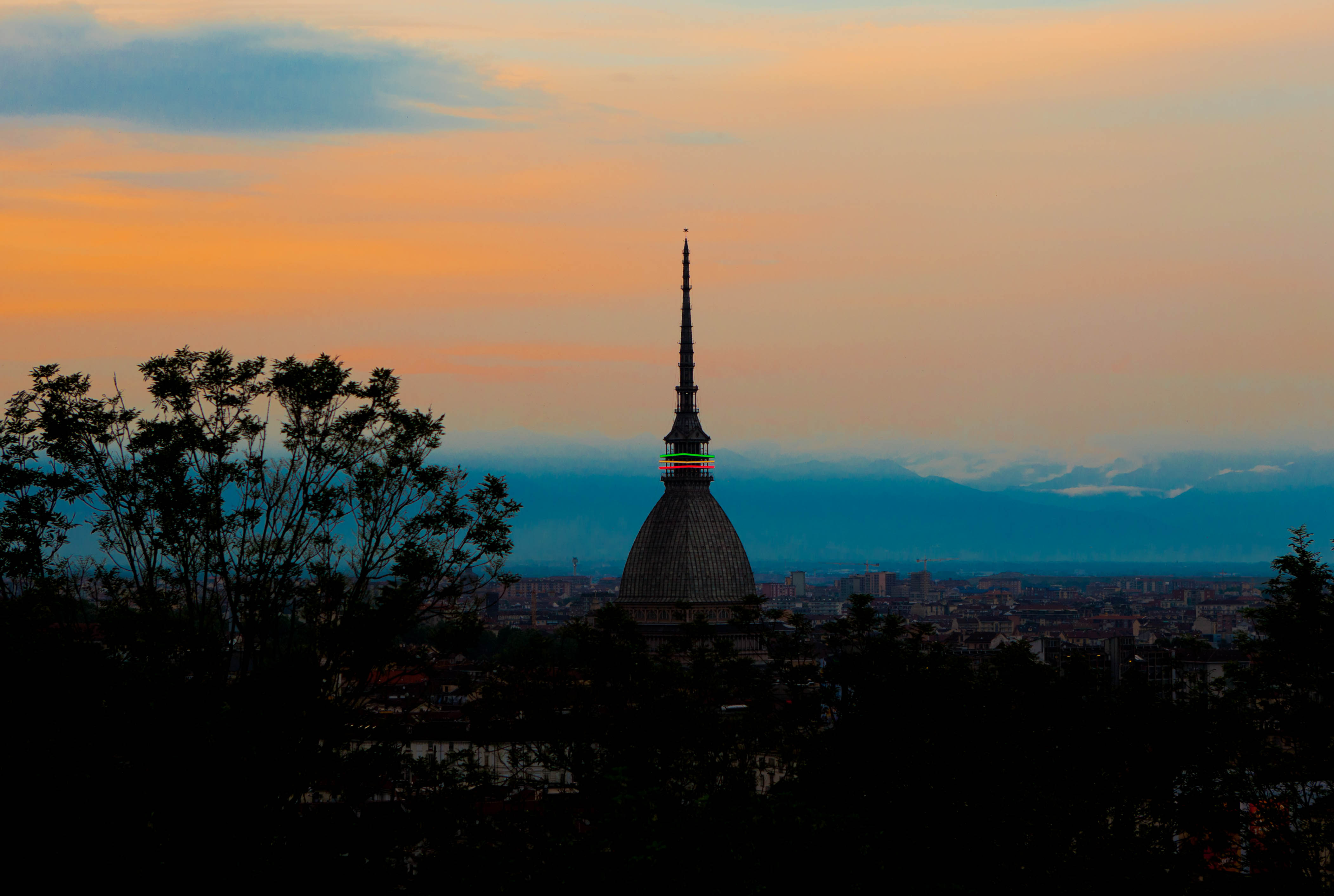 View on Mole Antonelliana